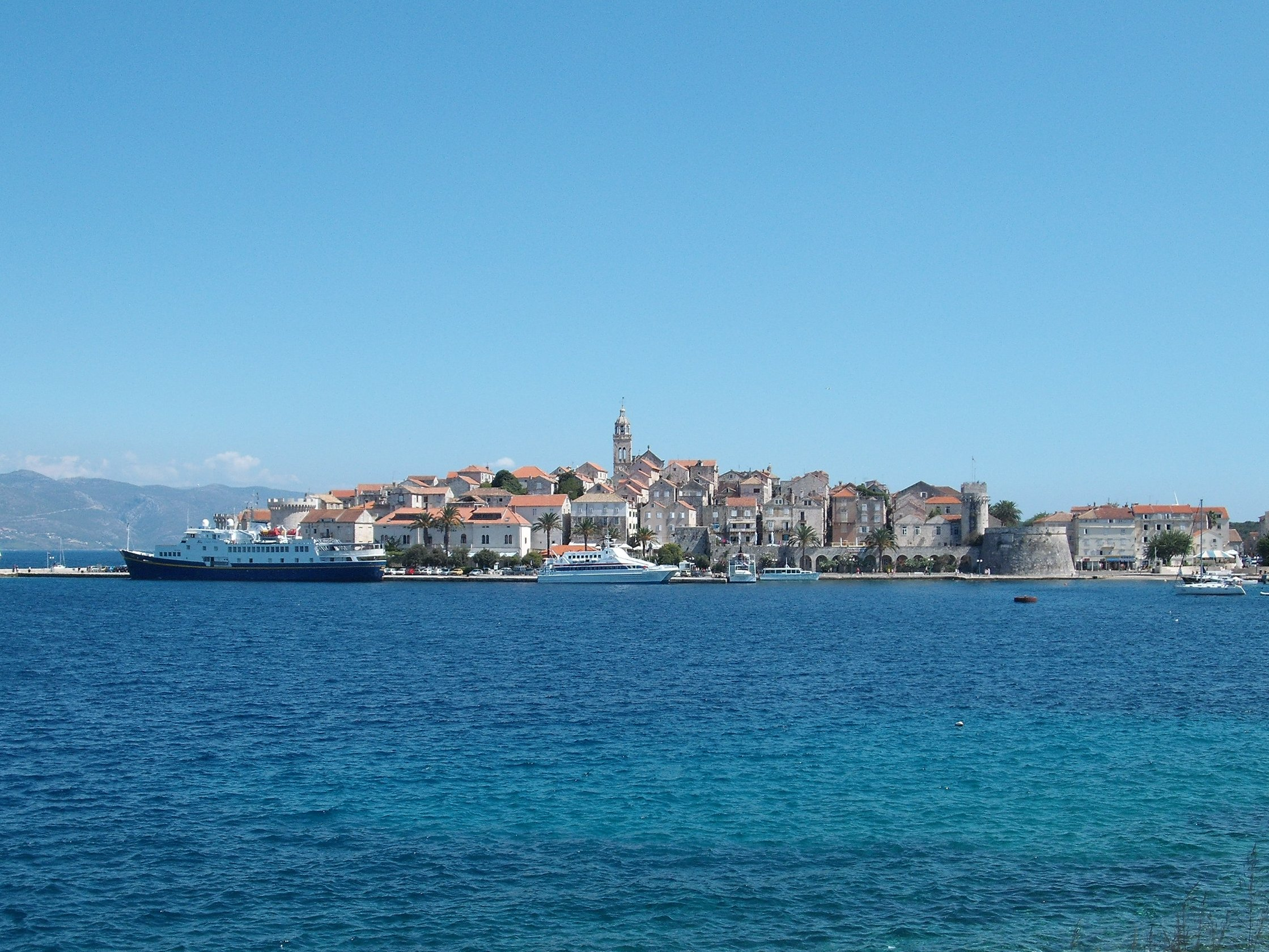 City of Korcula, Island Korcula, Croatia, seen from west